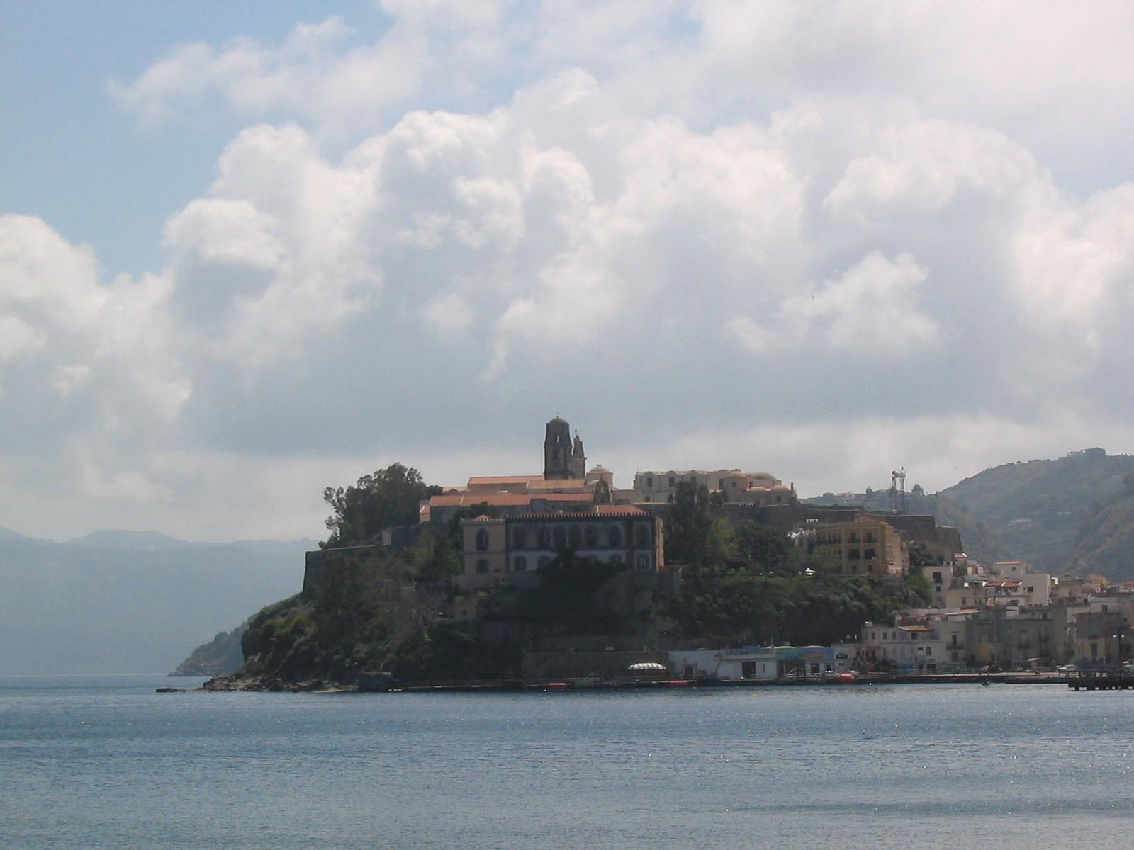 Lipari town, Lipari island, Aeolian islands, Italy (North of Sicily).